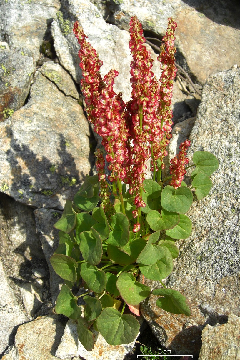 Oxyria digyna (L.) Hill 20090820.6 Raft Mountain, Wells Gray Park, BC